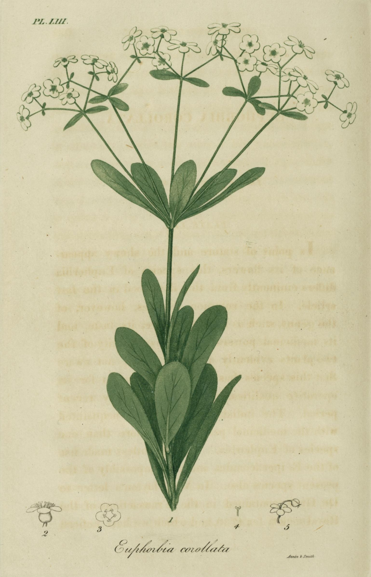 Plate illustration from: Jacob Bigelow. American medical botany: being a collection of the native medicinal plants of the United States. Boston: Cummings and Hilliard, 1817-1820. 3 volumes.